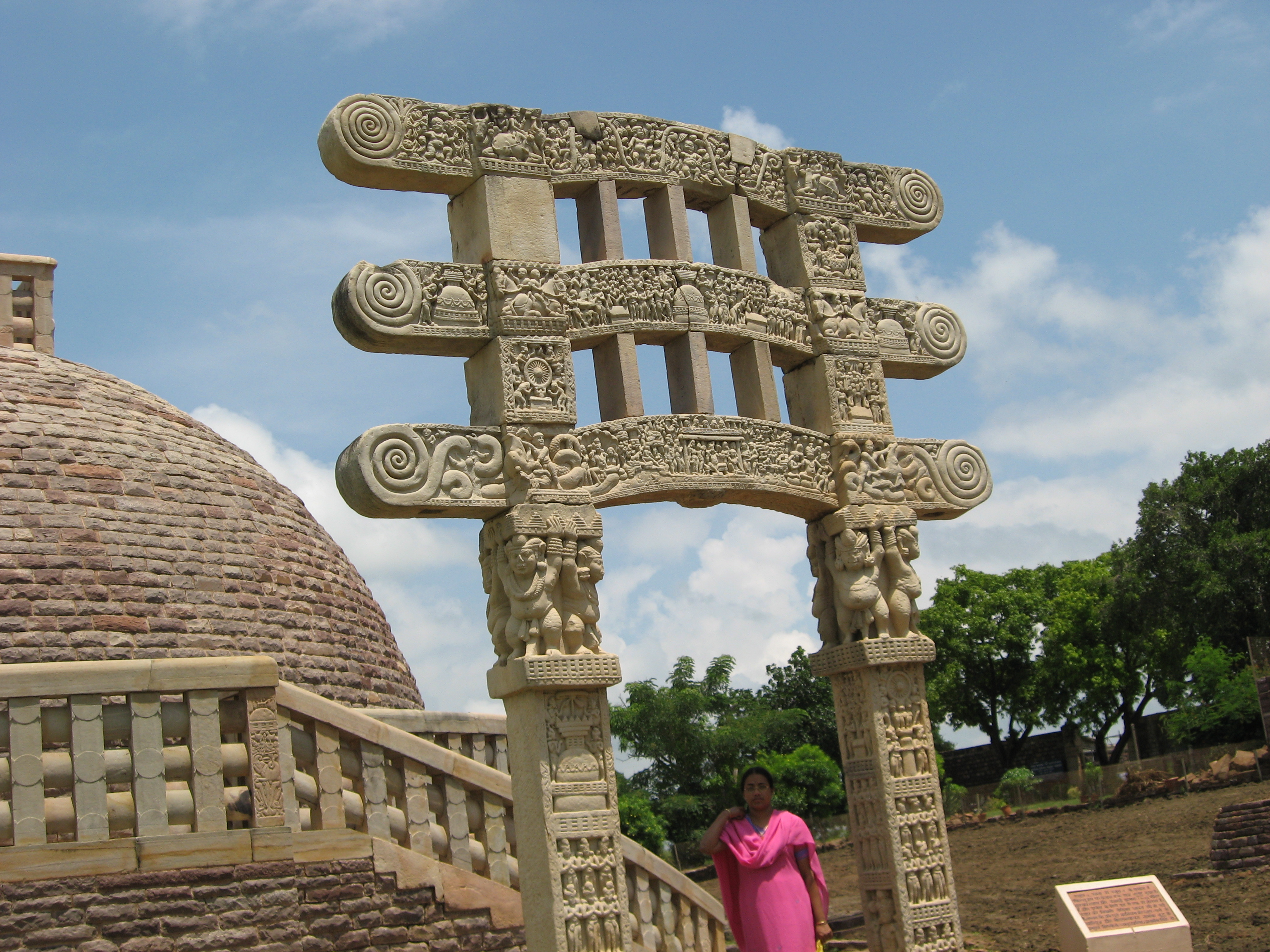 sanchisthoopam near bhopal